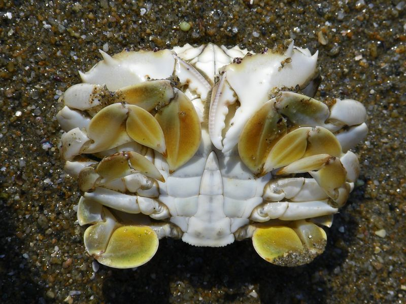 Ashtoret lunaris (Forskål,1775) at Nagasaki pref.